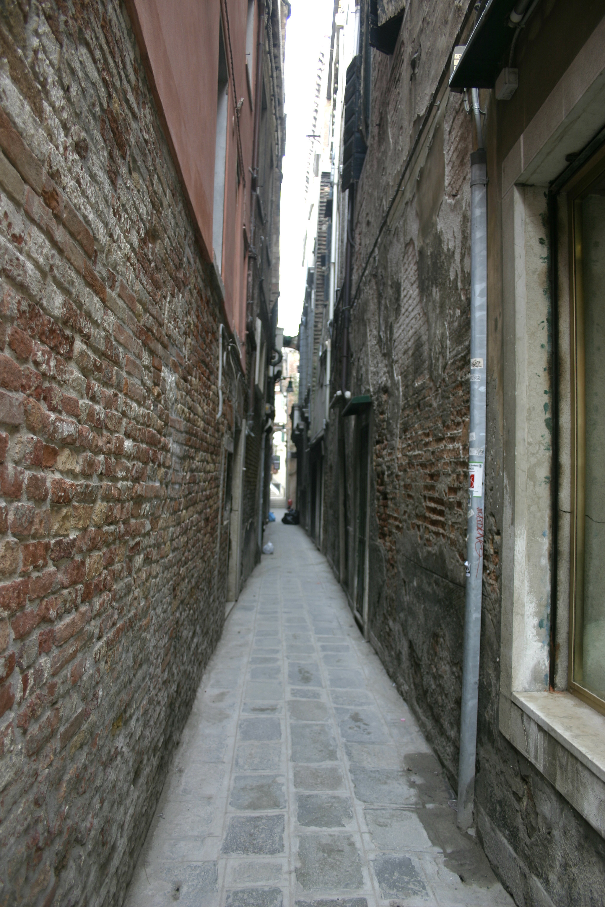 A small Calle